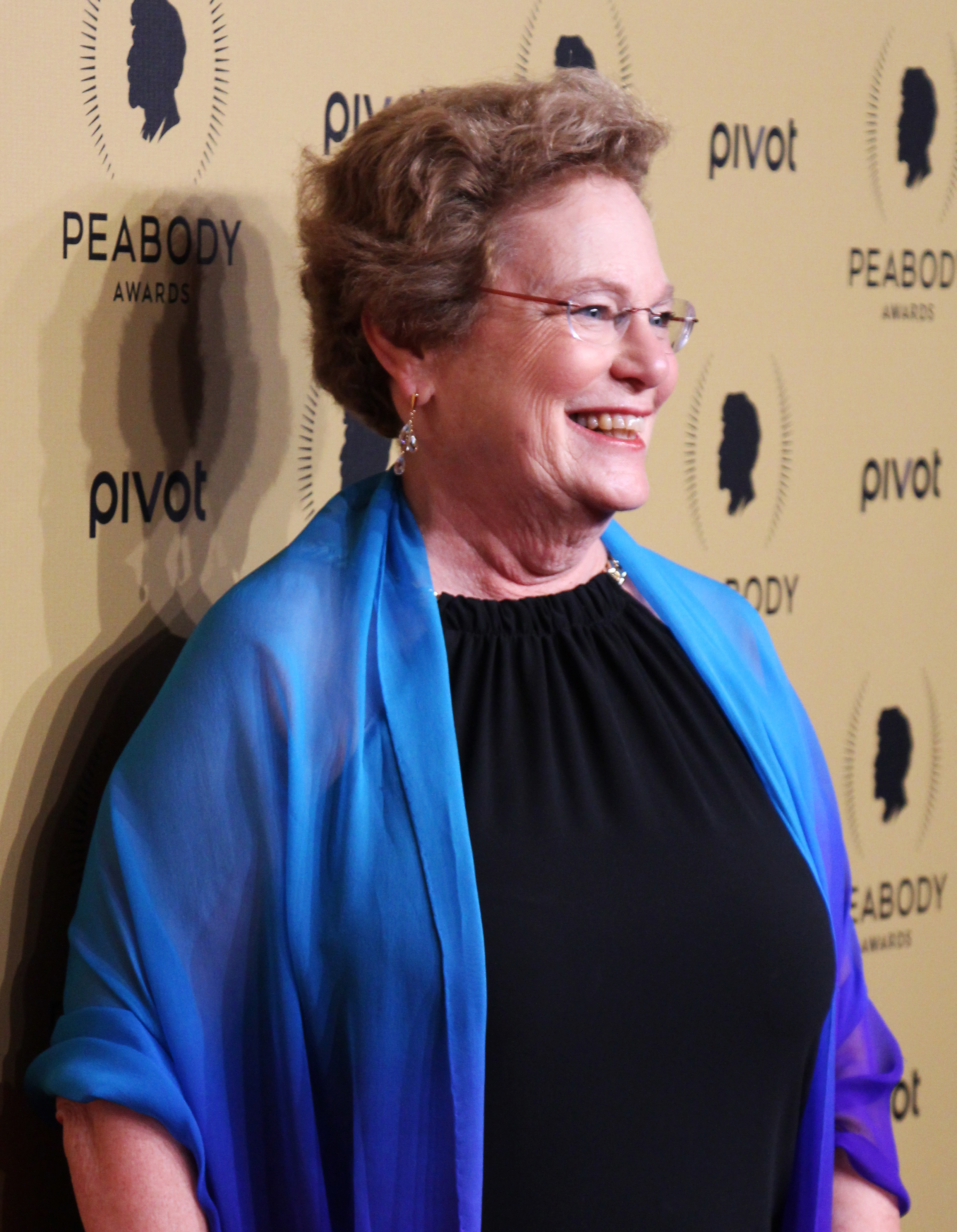 Producer and Director Abby Ginzberg arrives on the red carpet before accepting the Peabody for Soft Vengeance: Albie Sachs and the New South Africa.